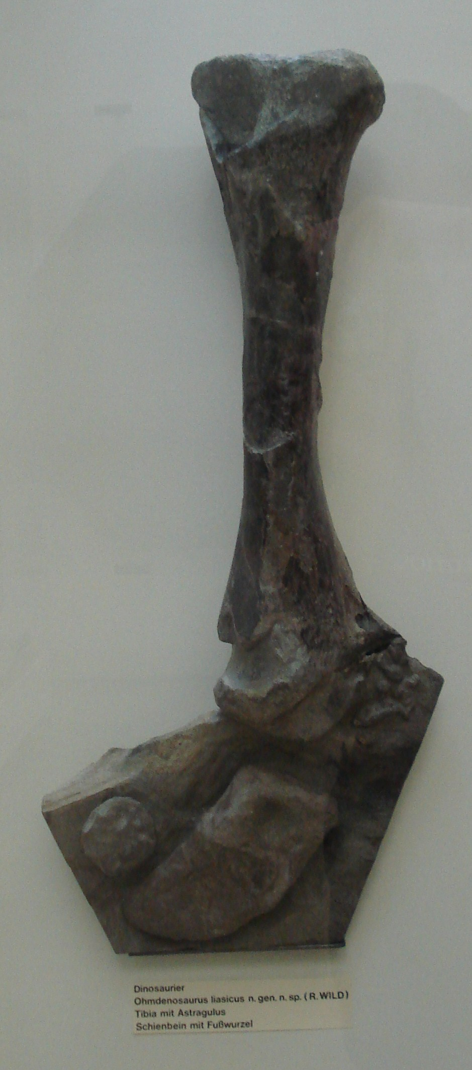 fossil of ohmdenosaurus